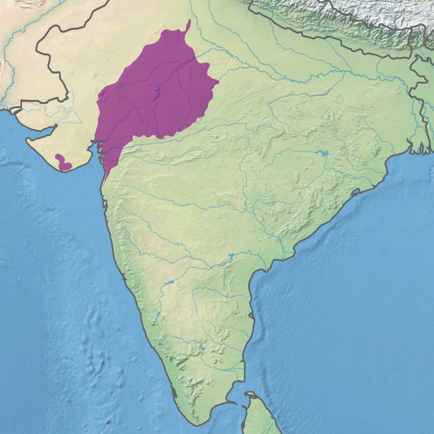 Ecoregion IM0206 - Khathiar-Gir dry deciduous forests (in purple)